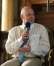 Wojciech Orliński, taken during Wroclaw Kultura 2.0 Conference